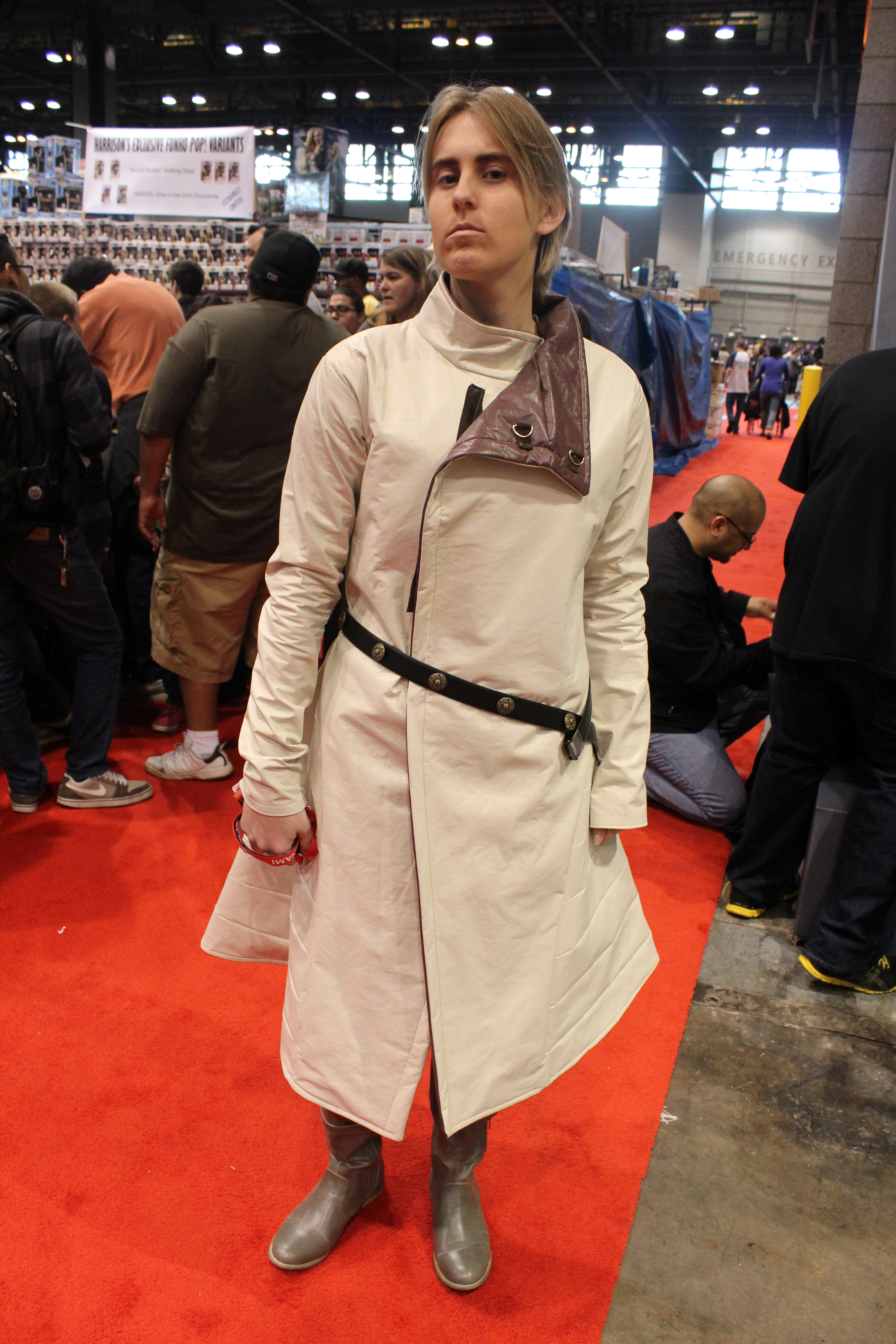 Cosplay at the 2013 Chicago Comic & Entertainment Expo (C2E2).